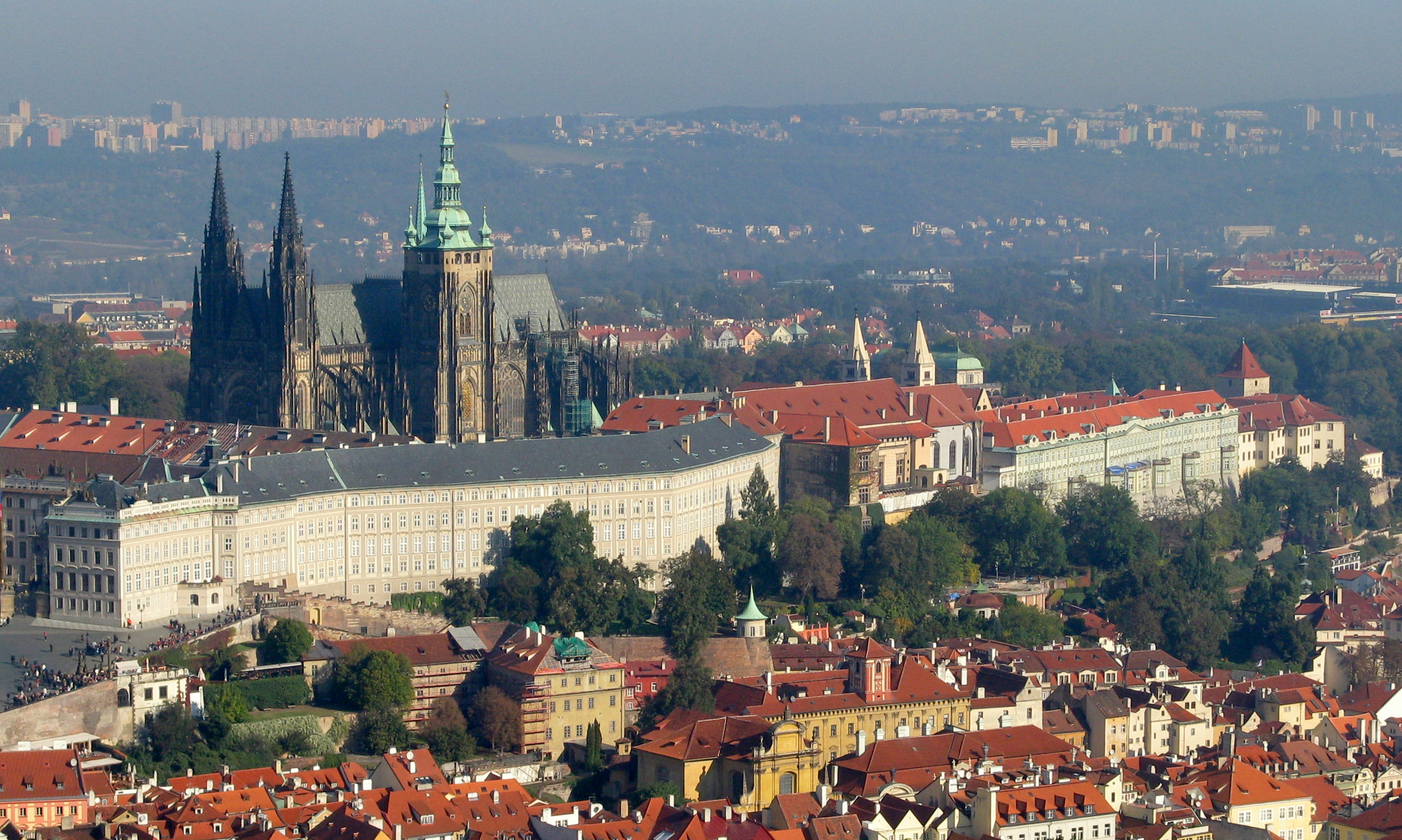 Prague Castle.